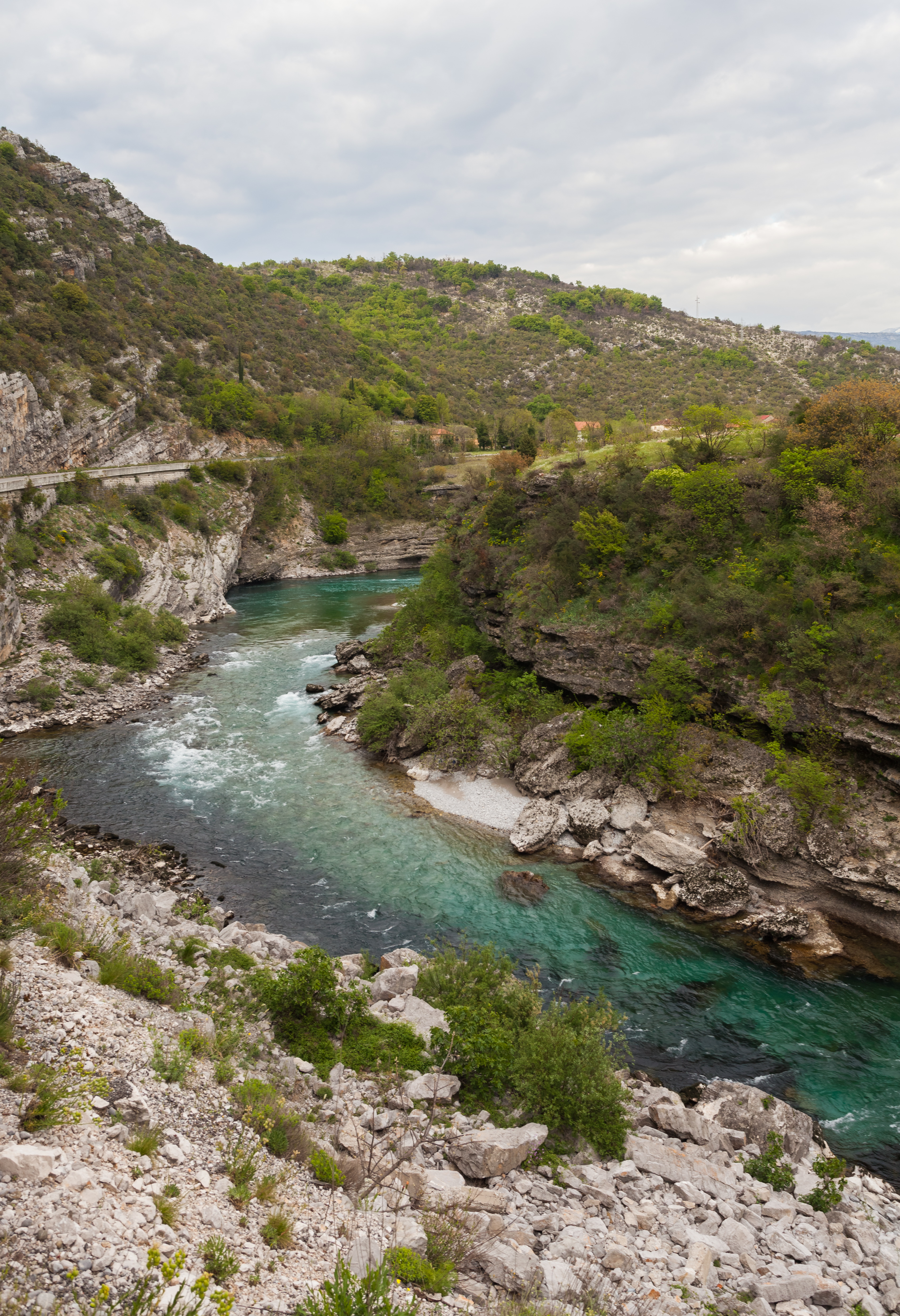 Moraca river, north of Podgorica, Montenegro